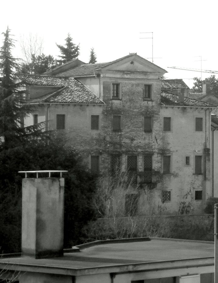 Pieve di Soligo: Villa Chisini